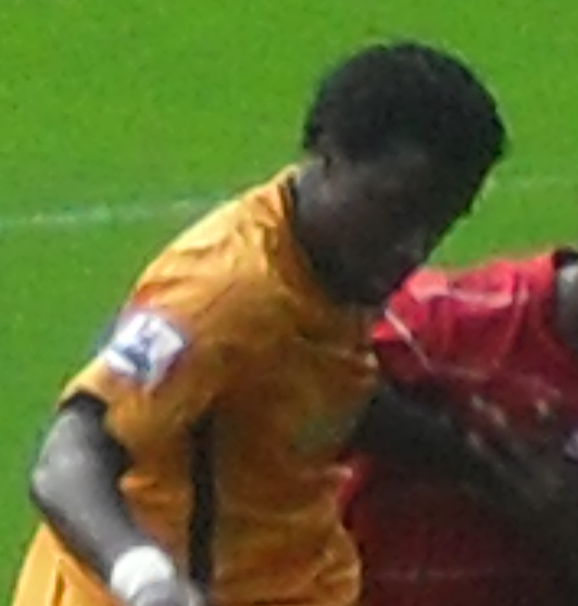 Bernard Mendy